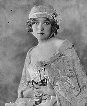 Title Portrait photograph of Mary Pickford Contributor Names Genthe, Arnold, 1869-1942, photographer Created / Published between 1921 and 1942; from a negative taken 1921 Sept. 7. Subject Headings - Pickford, Mary,--1893- Format Headings Lantern slides. Portrait photographs. Notes - Title devised. - Purchase; Genthe Estate; 1942 or 1943. - ID: LC-G401-3664-044; 1921 Sept. 7 Medium 1 slide : lantern ; 4 x 5 in. or smaller. Call Number/Physical Location LC-G4085- 0402 [P&P]